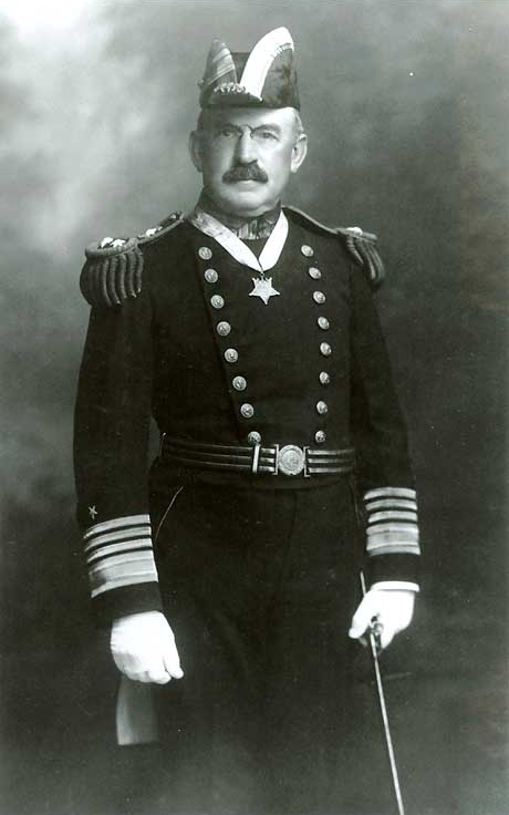 Portrait photo of Admiral Frank F. Fletcher (1855-1928), USN, taken circa 1919, while wearing his Medal of Honor.